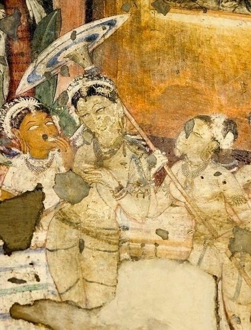 Ajanta frescoes paintings 2nd century B.C to 6th Century A.D